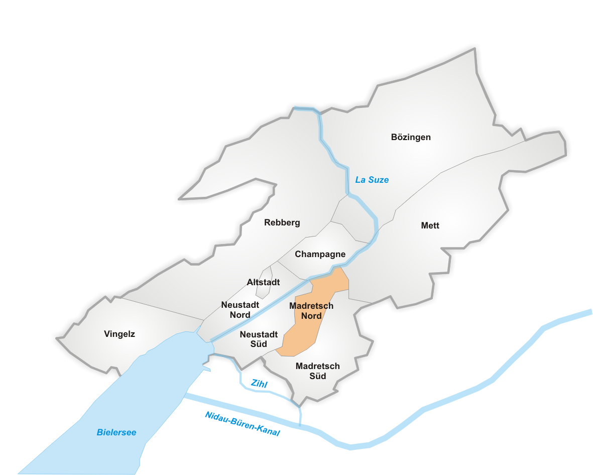 Biel Quarter Madretsch Nord